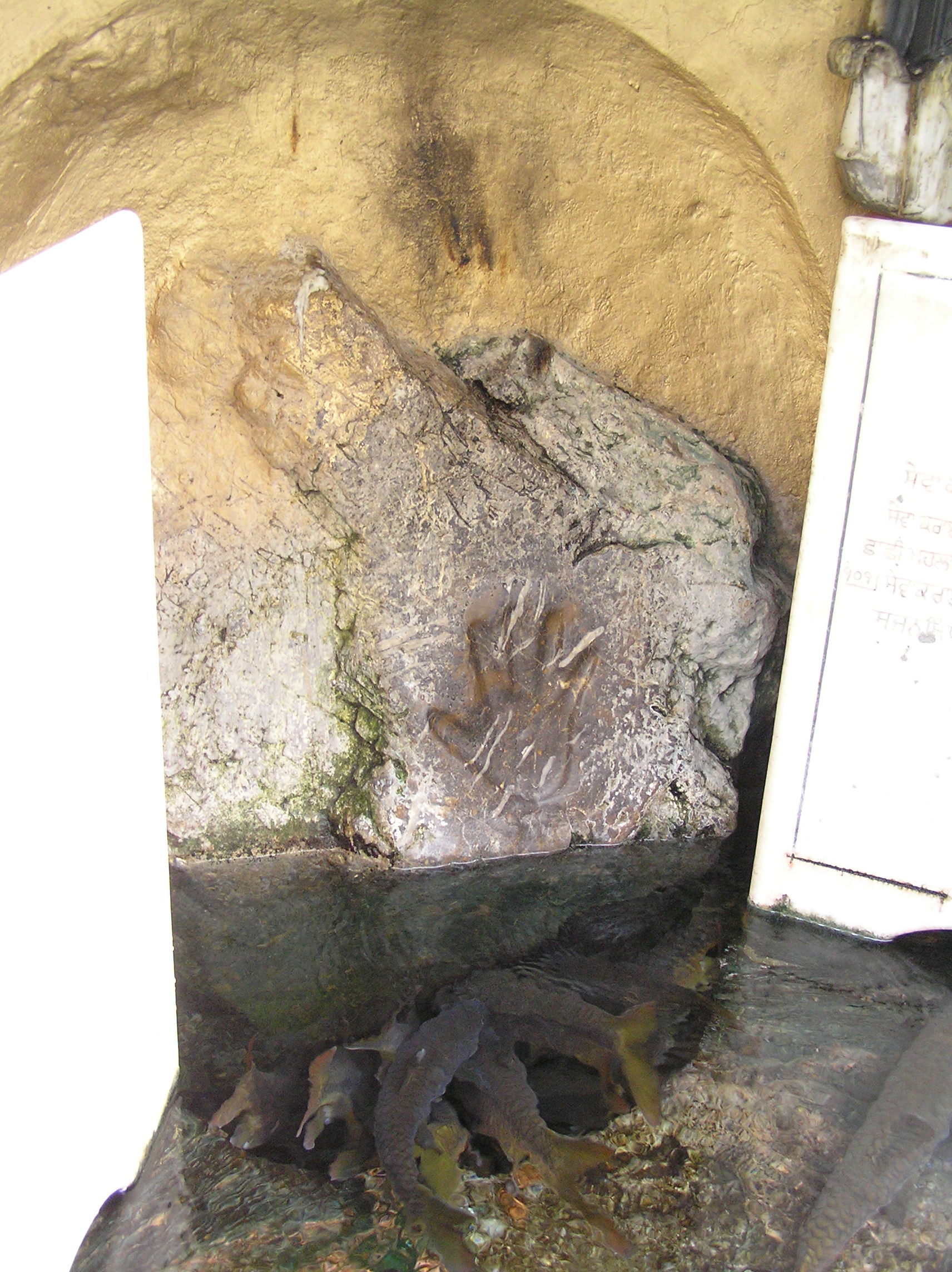 Gurdwara Panja Sahib in Hasan Abdal, Pakistan: Handprint on the boulder which is believed by Sikhs to be that of Guru Nanak. Fish in spring underneath. Guru Nanak along with Bhai Mardana reached Hasan Abdal in Baisakh Samwat 1578 B.K. corresponding to 1521 A.D. in the summer season. Under a shady cool tree, Guru Nanak and Bhai Mardana started reciting Kirtan and their devotees gathered around. This annoyed Wali Qandhari but he was helpless. According to legend, Bhai Mardana was sent three times to Wali Qandhari so that he would provide him with some water to quench his thirst. Wali Qandhari refused his request and was rude to him. In spite of this, Mardana still very politely stuck to his demand. The Wali ironically remarked : Why don't you ask your Master whom you serve? Mardana went back to the Guru in a miserable state and said "Oh lord ! I prefer death to thirst but will not approach Wali the egoist." The Guru replied " Oh Bhai Mardana ! Repeat the Name of God, the Almighty; and drink the water to your heart's content." The Guru put aside a big rock lying nearby and a pure fountain of water sprang up and began to flow endlessly. Bhai Mardana quenched his thirst and felt grateful to the Guru. On the other hand, the fountain of Wali Qandhari dried up. On witnessing this, the Wali in his rage threw a part of a mountain towards the Guru from the top of the hill. The Guru stopped the hurled rock with his hand leaving his hand print in the rock. Observing that miracle, Wali became the Guru's devotee. This holy and revered place is now known as Panja Sahib. Image made available for use on Wikipedia (by requesting the author to release under a free license) by Hardeep Singh. (From Wikipedia, the free encyclopedia)